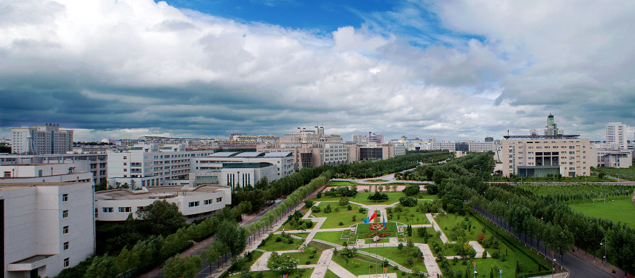 the square of Jilinuniversity，China 中文（中国大陆）: 吉林大学南区广场